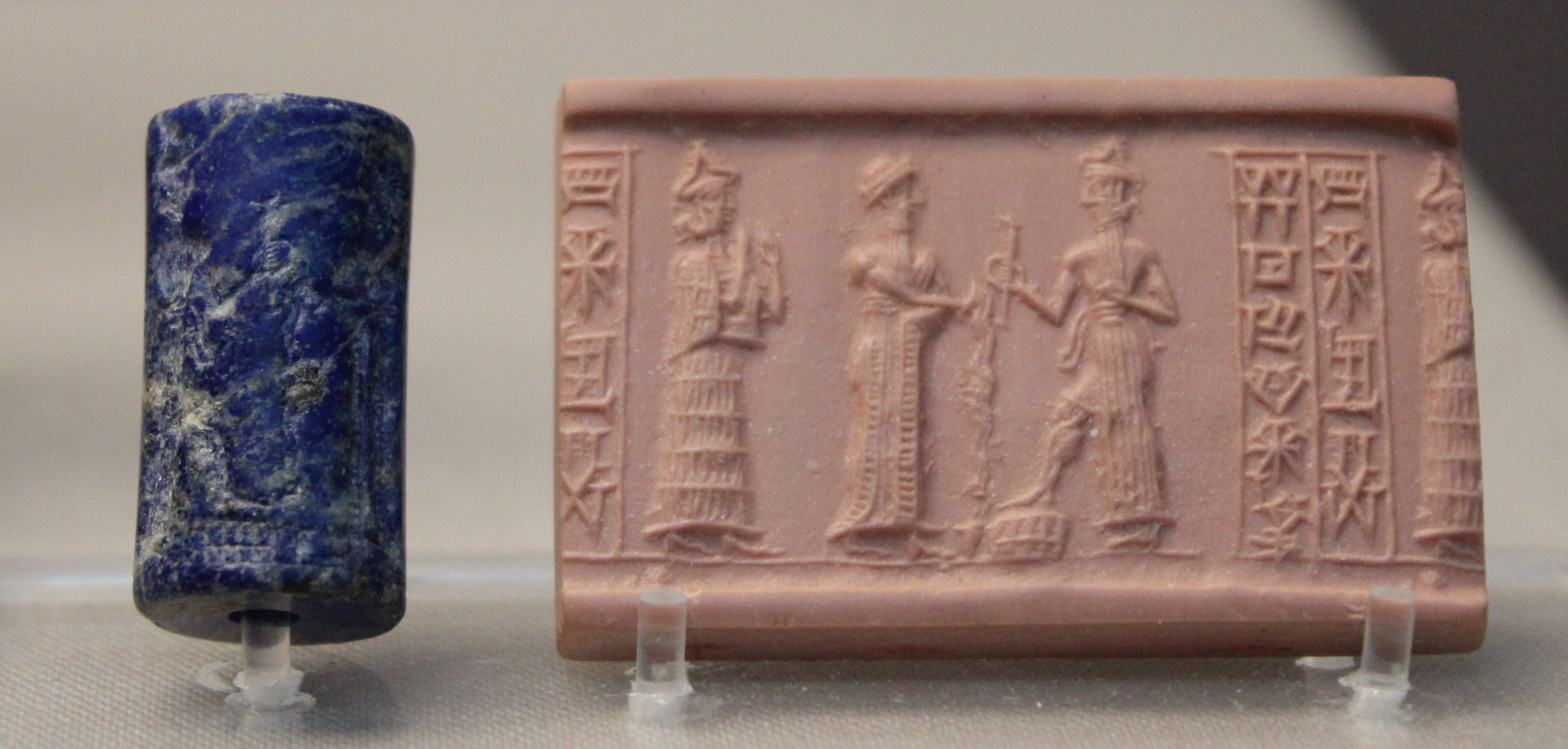 Lapis lazuli cylinder seal. A suppliant goddess (left, with necklace counterweight) stands behind the robed king (center) who pours libation before the ascending sun god who holds the rod and ring of justice and rests his foot on a rectangular chequer-board mountain. Bur-Dagan, son of Kurub-Adad, inscribed on the seal, is probably the name of the owner. From a tomb in Ur, dated c. 1900 BC. BM 121418.